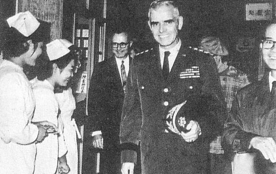 HICOM Lampert visit Airakuen Sanatorium